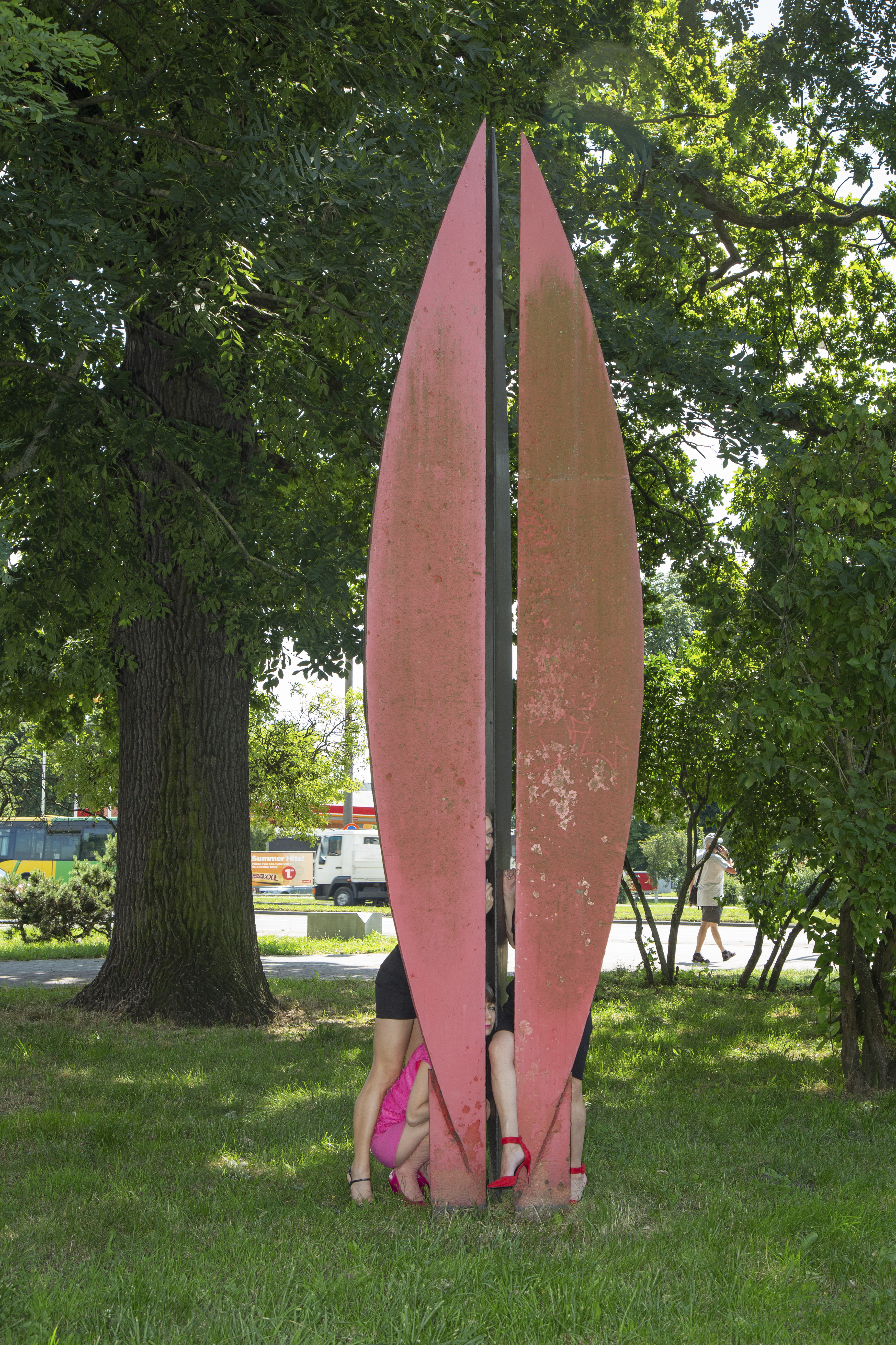 A spatial form created by Jan Ziemski during the 1st Biennale of Spatial Forms (1965) in Elbląg (in collaboration with J. Nowacki and E. Kopryk). The sculpture consists of three elements, the one in the photo is the largest and is 6 meters high. It is located on Grunwaldzki Square at 3 Maja street. In the background, visual artists: Iwona Demko and Agata Zbylut with curator Karina Dzieweczyńska, while working on the project entitled "Congress of dreamers / Kongres Marzycielek” carried out at the Art Center Gallery EL.